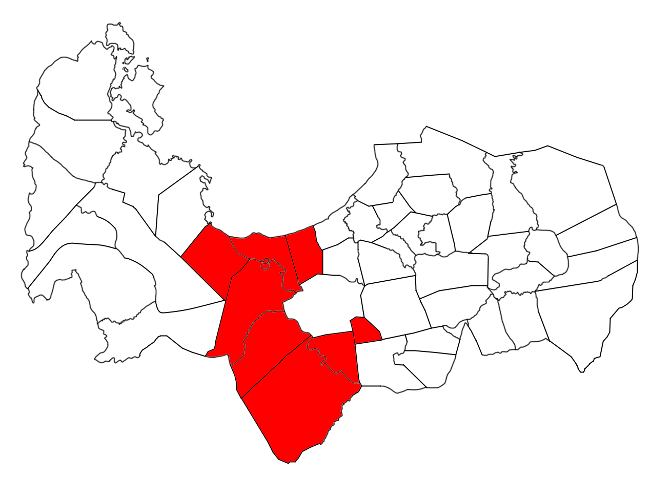 a 2d district map